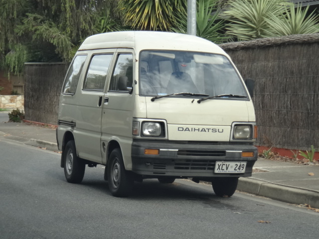 I remember years ago, these little Japanese vans and utes were pretty common, along with offerings from Suzuki, Subaru, and Honda, but now you're lucky to see one at all!